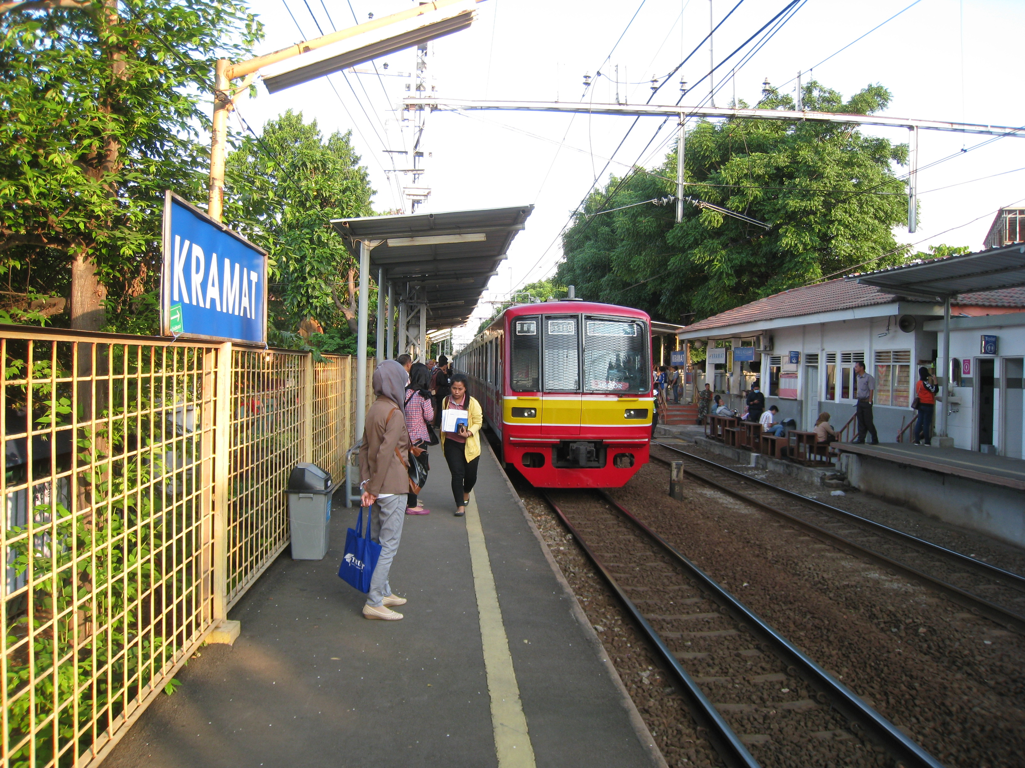 Commuterline electric train at Kramat Station, Central Jakarta, Indonesia.